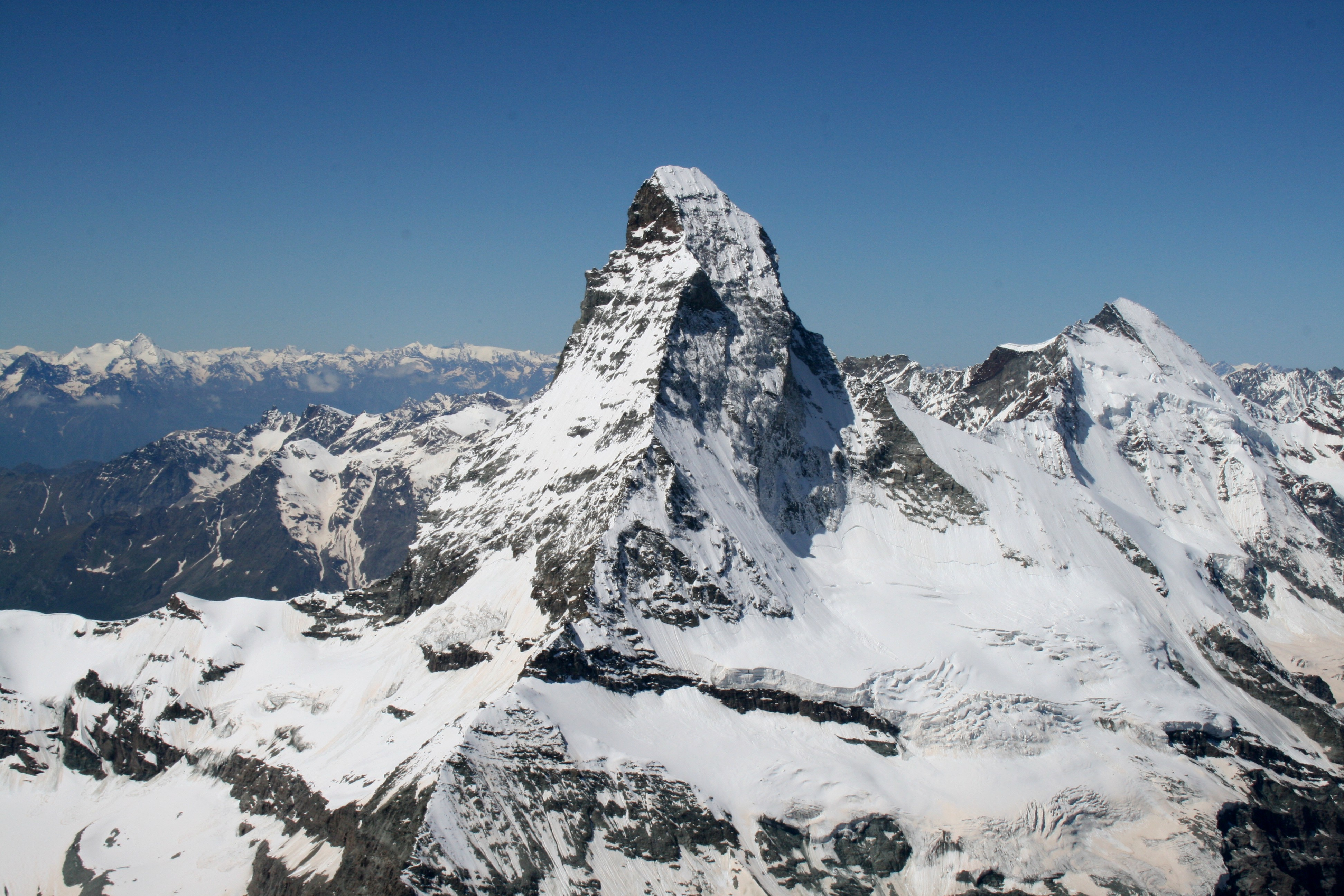 The famous Matterhorn